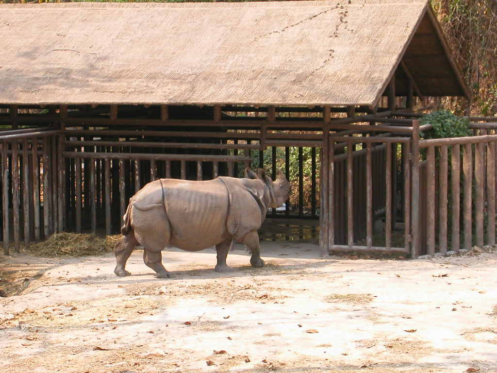 Rhinoceros in Chiang Mai zoo